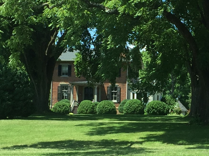 Elmington house, a historic home listed on the NRHP in Powhatan Virginia